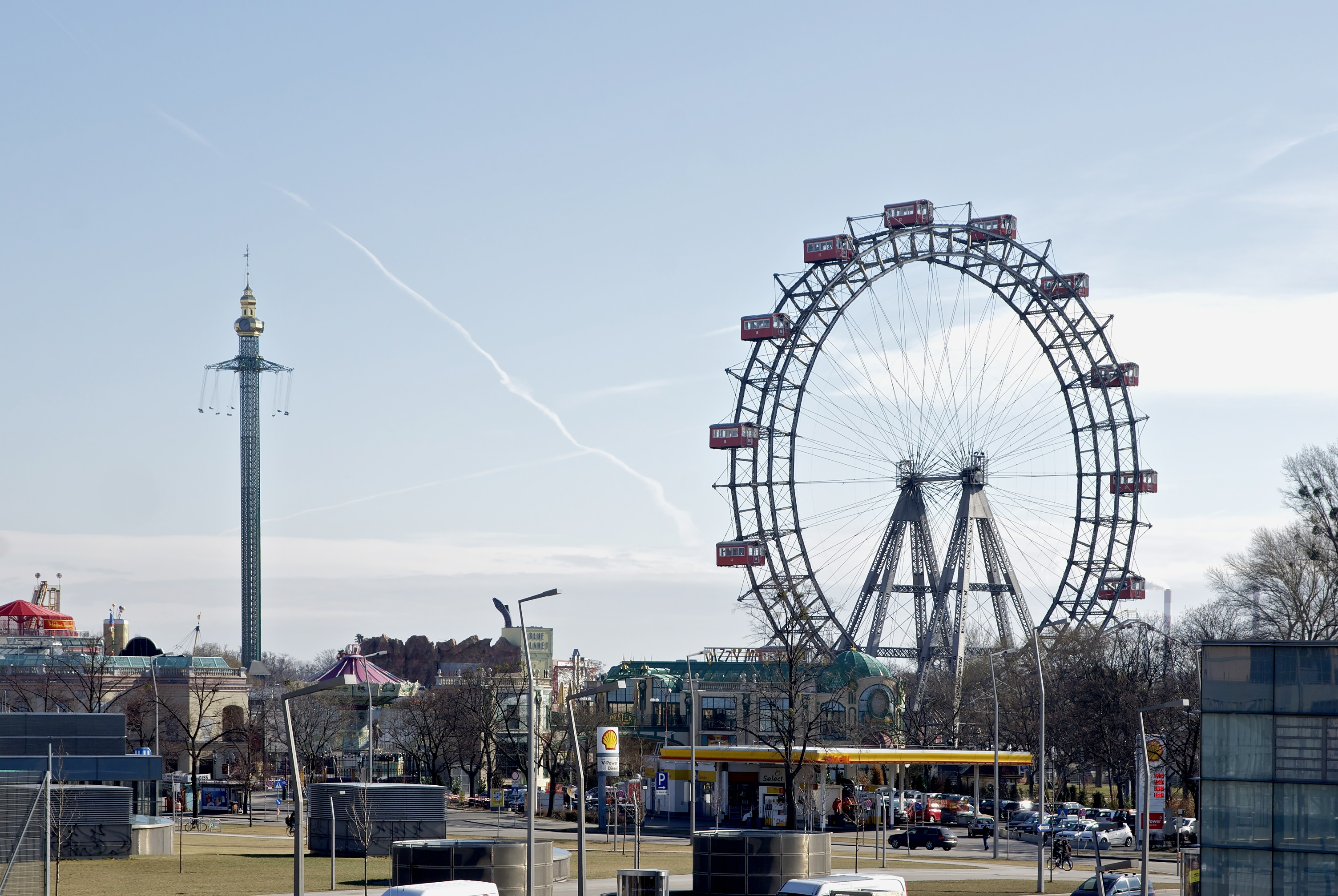 "Prater Turm" & "Wiener Riesenrad", in Prater park, Wien, Austria.